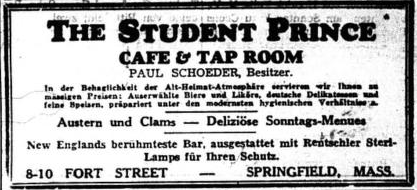 Early advertisement for The Student Prince Cafe and Tap Room in German, prior to the opening of The Fort dining room of 1946. As seen in the Neu England Rundschau (New England Review) of Holyoke, Massachusetts.